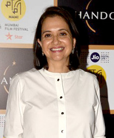 Journalist Anupama Chopra attends the 9th Mumbai Film Festival